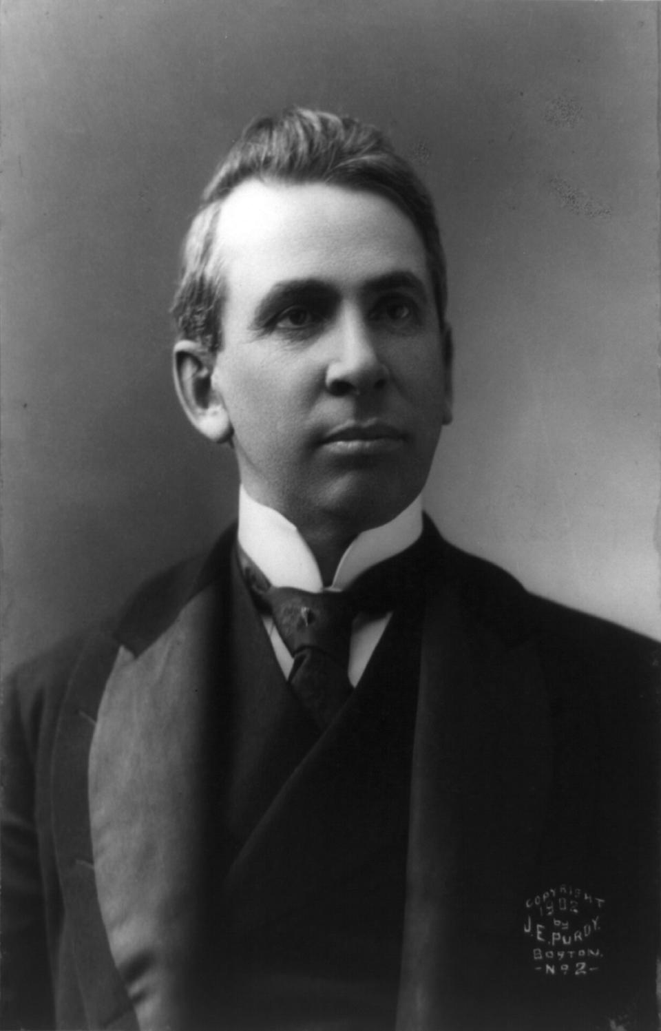 William Alden Smith